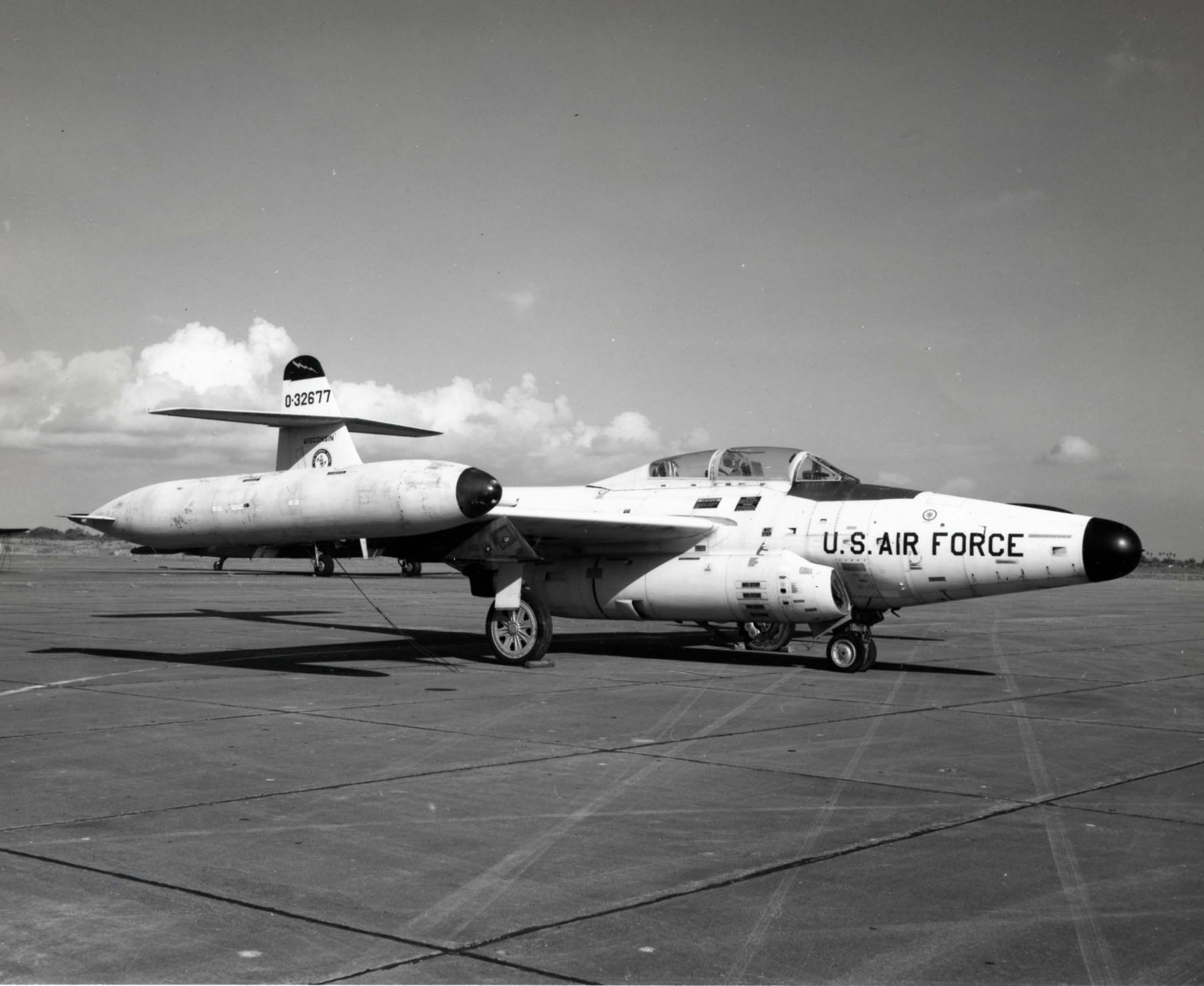 Northrop F-89J (S/N 53-2677) of the Wisconsin Air National Guard, 176th Fighter Interceptor Squadron.